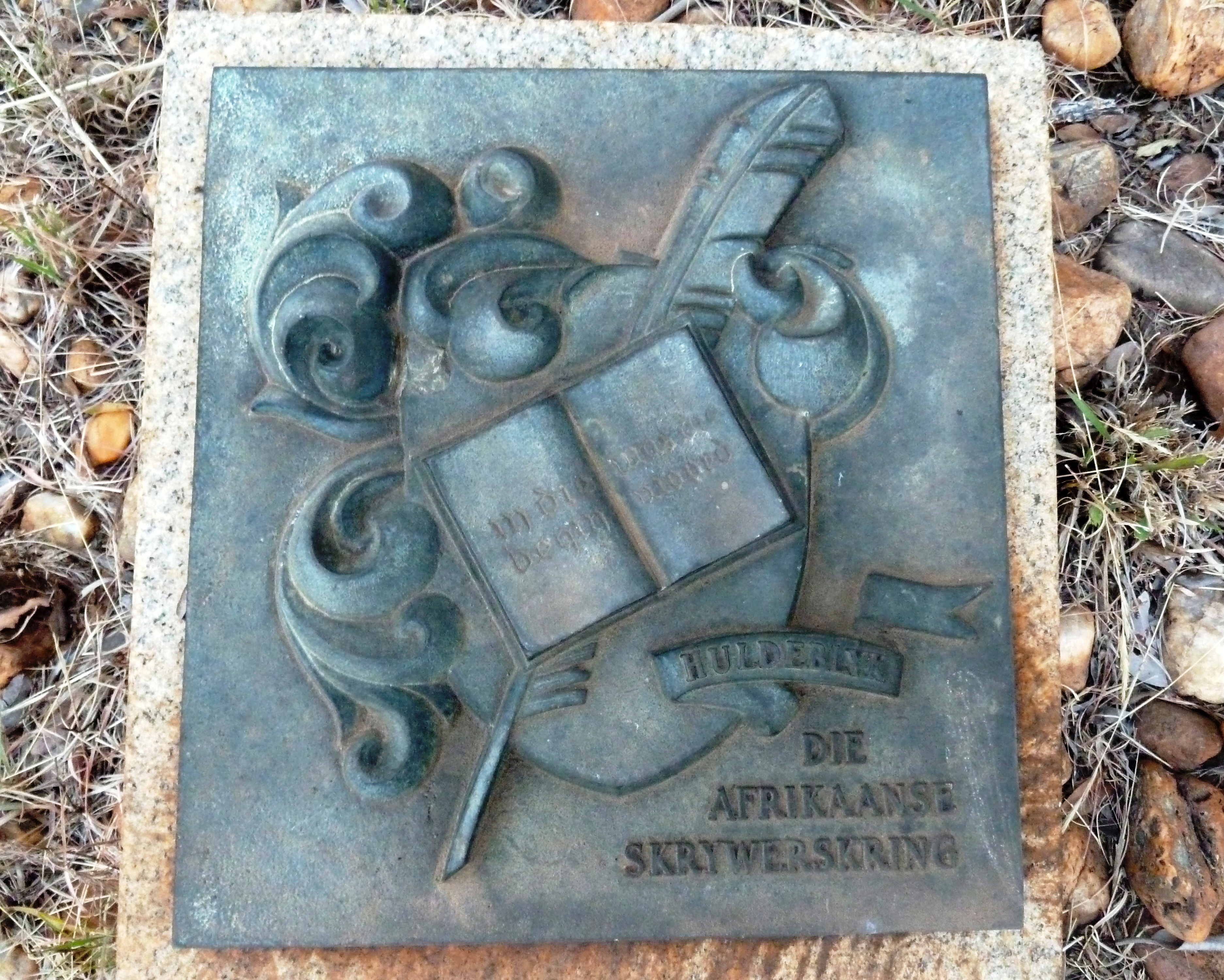 Dedication tablet on grave of writer Gustav Preller in the Preller family cemetery at Pelindaba near Pretoria. The "Skrywerskring" was a literary society founded in 1934, that produced yearbooks (1936-50) which aimed to explore the diversity and motives of Afrikaans writers, and promoted Afrikaans writing in general. [1][2] in die begin was die woord HULDEBLYK DIE AFRIKAANSE SKRYWERSKRING